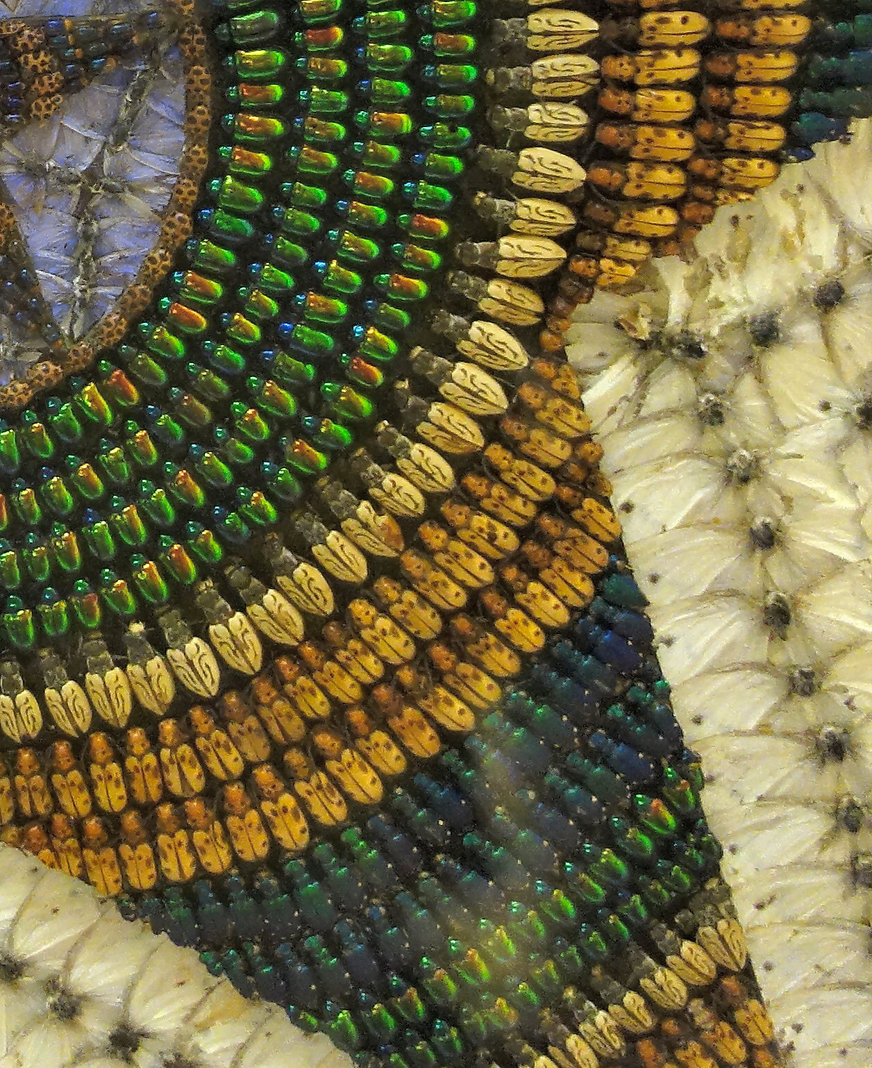 Artwork created by John Hampson from thousands of insects (butterfly wings, beetles, etc.). Exhibited in the Fairbanks Museum and Planetarium, St. Johnsbury, Vermont, USA. This artwork is in the public domain because the artist died more than 70 years ago.